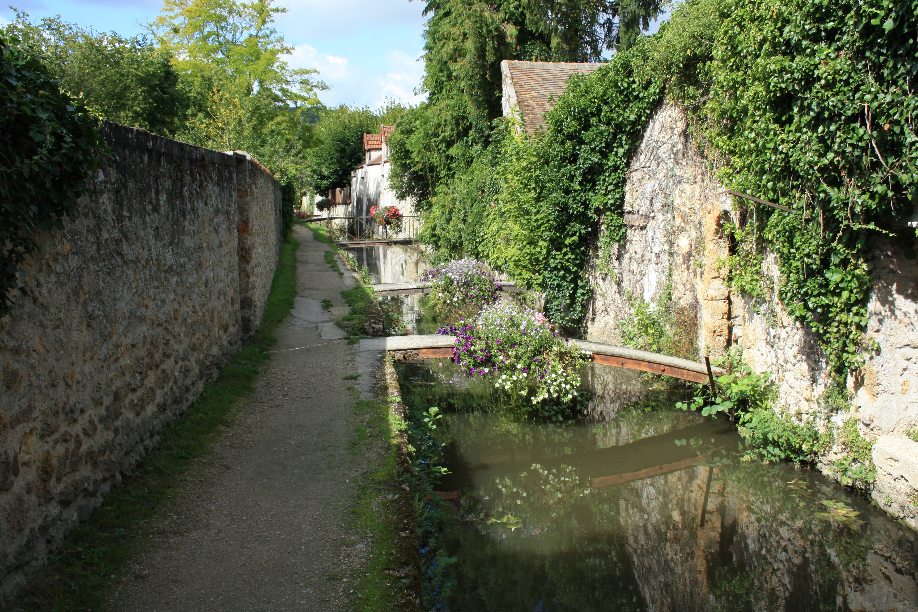 The "Promenade des petits ponts" is a path along a channel of the Yvette river in Chevreuse, France.